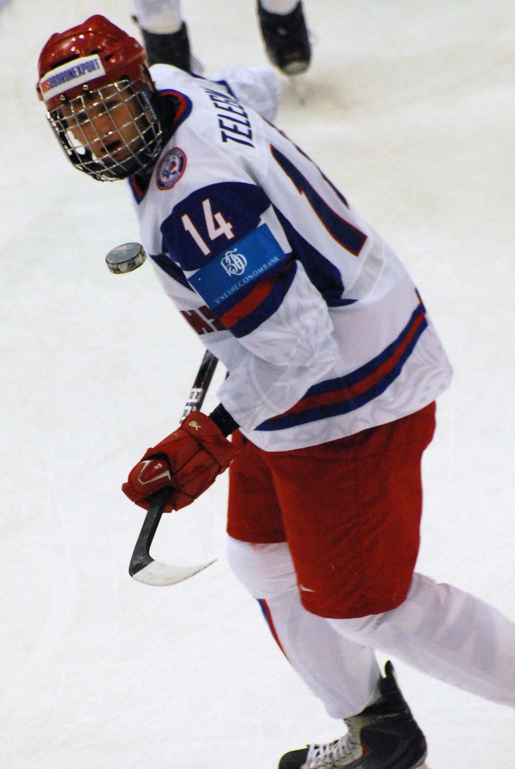 Ivan Telegin bounces a puck during warmups.